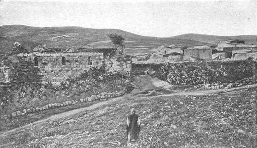 Courtesy of the 1901-1906 Jewish Encyclopedia, Samaritan in Samaria, ca 1900